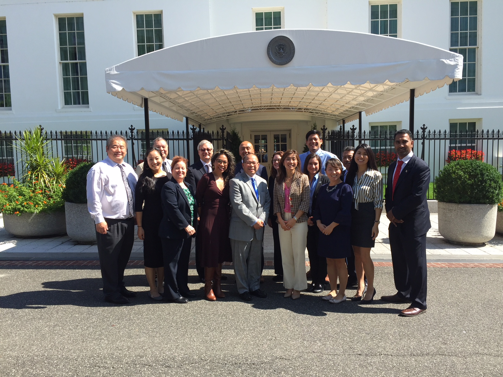 Photo of regional network group taken on September 26, 2018.